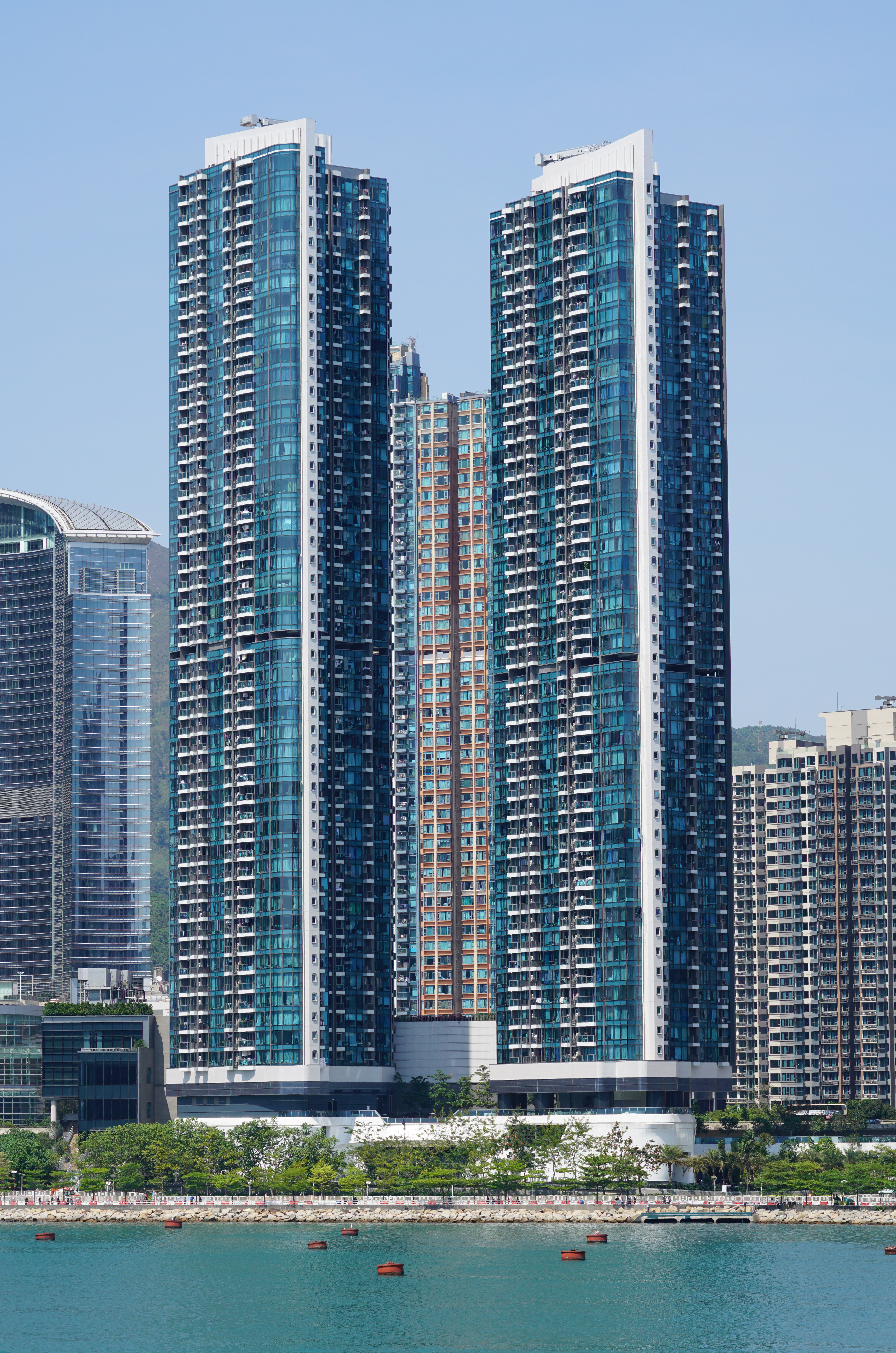 The Pavilia Bay, Hong Kong.